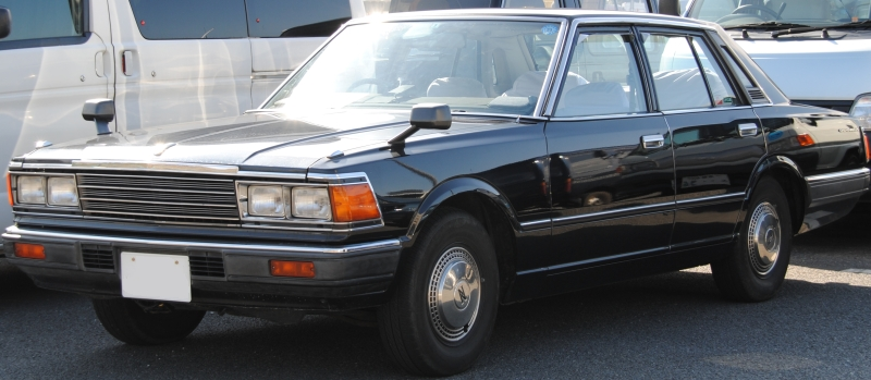 Nissan Gloria 200E GL